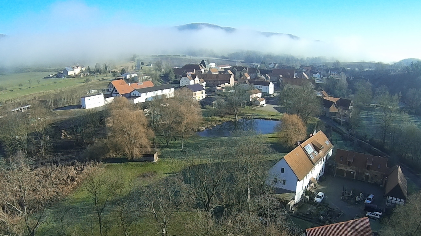 Löberschütz village